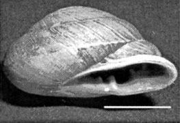 Black and white photo of the apertural view of the shell of Pleurodonte sloaneana, synonym: Dentellaria sloaneana from Jamaica. Scale bar = 1 cm.